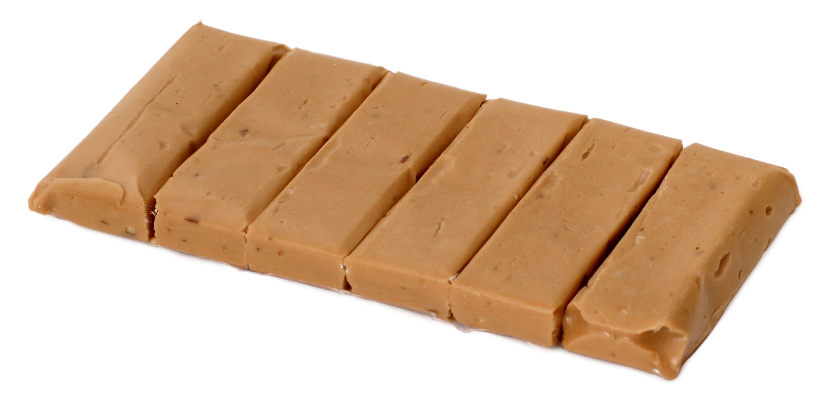 A Bit-O-Honey large bar opened, showing a six smaller bricks attached together.